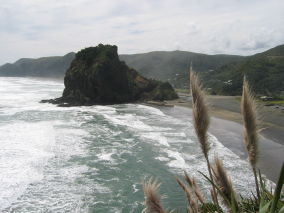 Looking across South Piha Beach to Lion Rock, Auckland, New Zealand. Photo taken 29 February 2004.